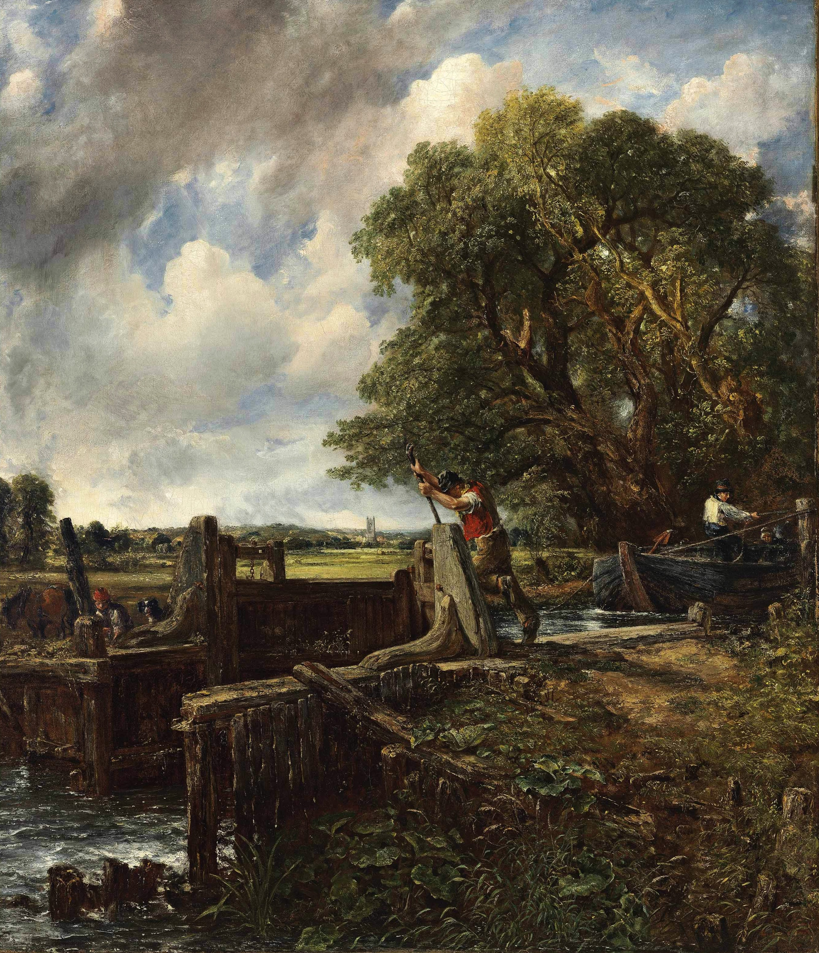 This painting shows the lock at Flatford Mill, on the River Stour in Suffolk